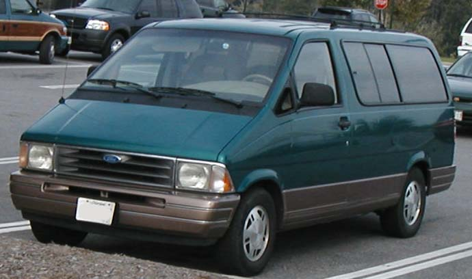 1992-1997 Ford Aerostar LWB photographed in USA.